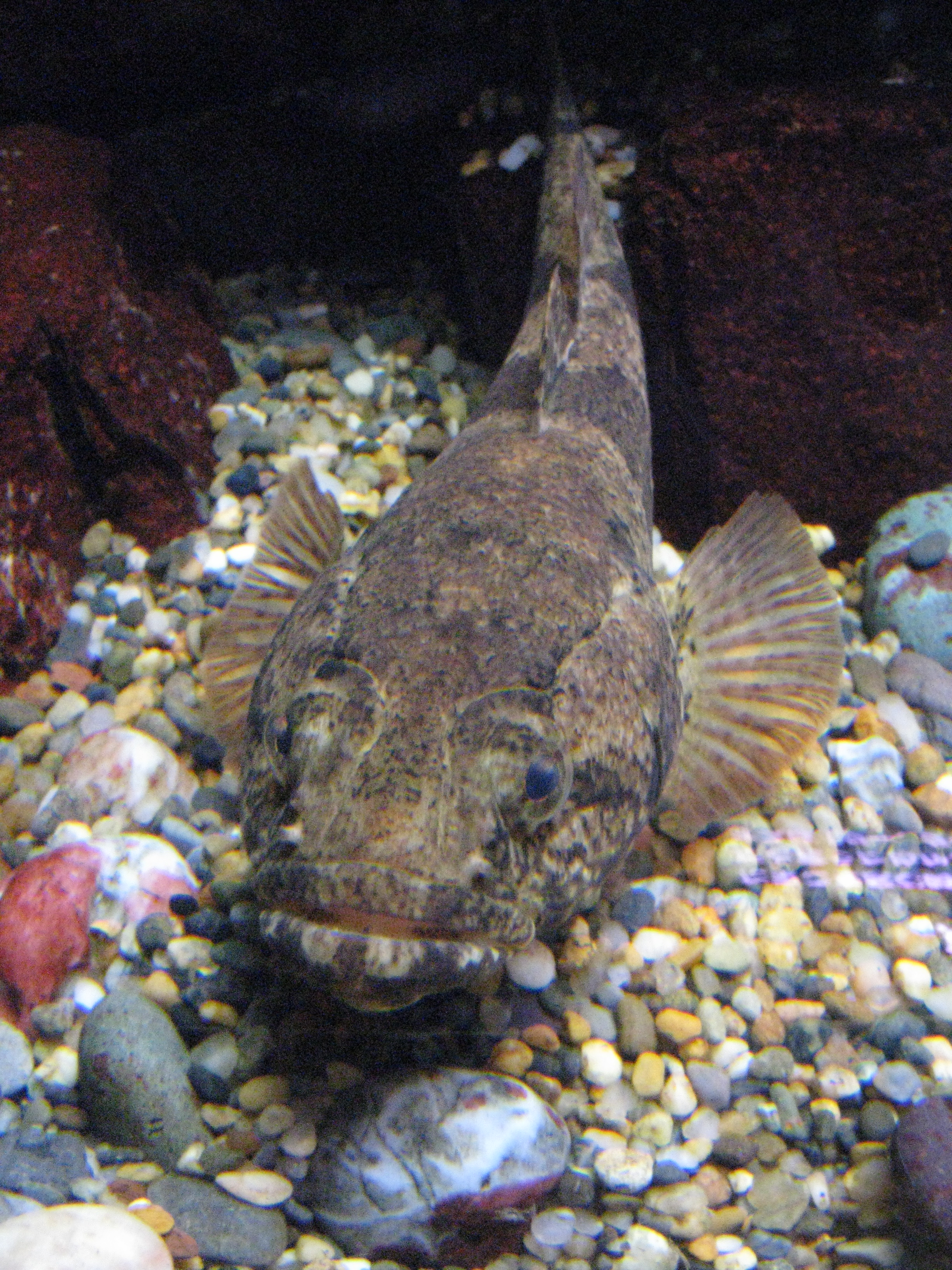 Odontobutis obscura in Suidokinenkan, Osaka, Japan